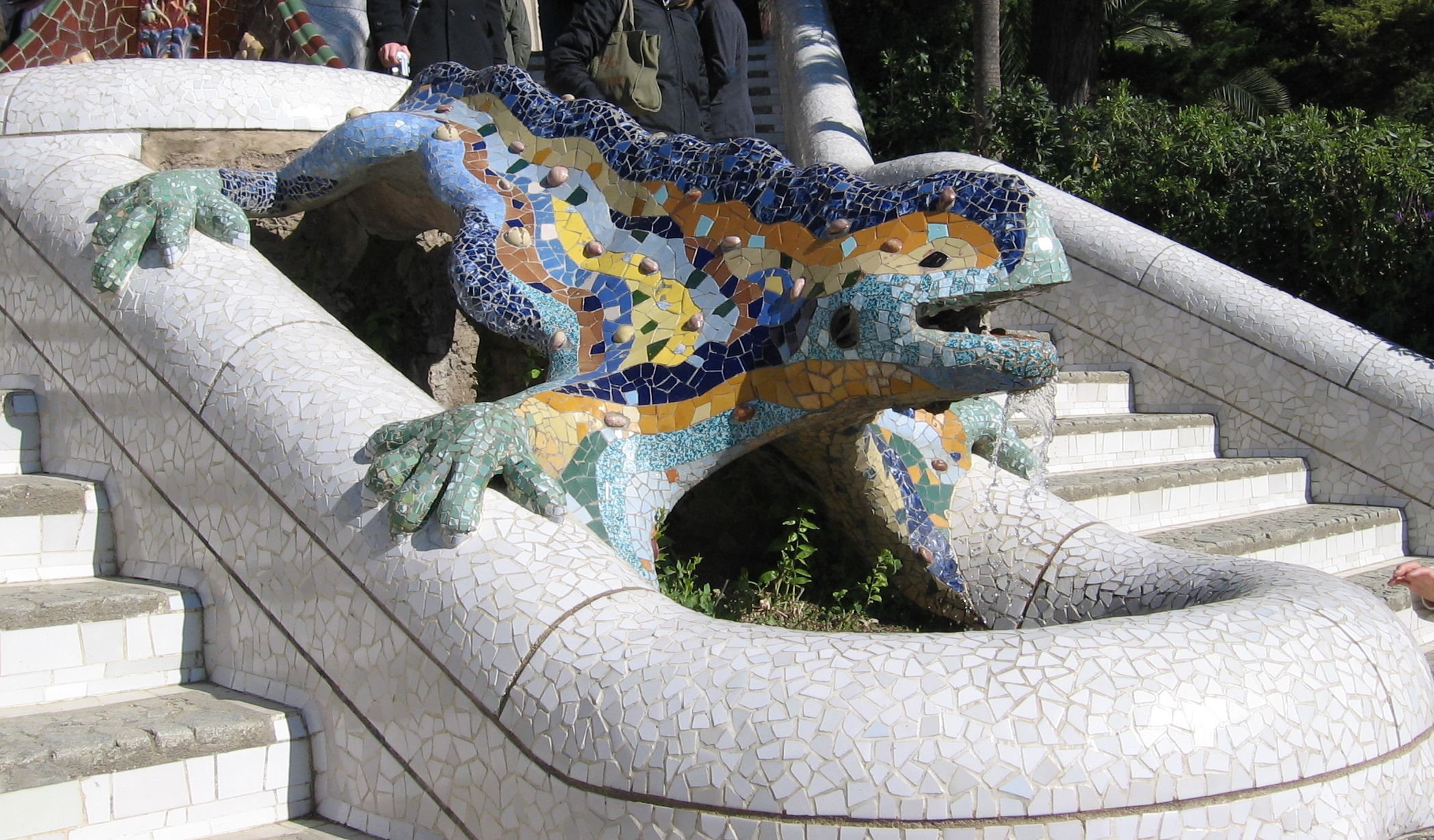 The mosaic salamander, popularly known as "el drac" (the dragon), at the entrance to Parc Güell. The head has been restored after the vandalism of February 2007.